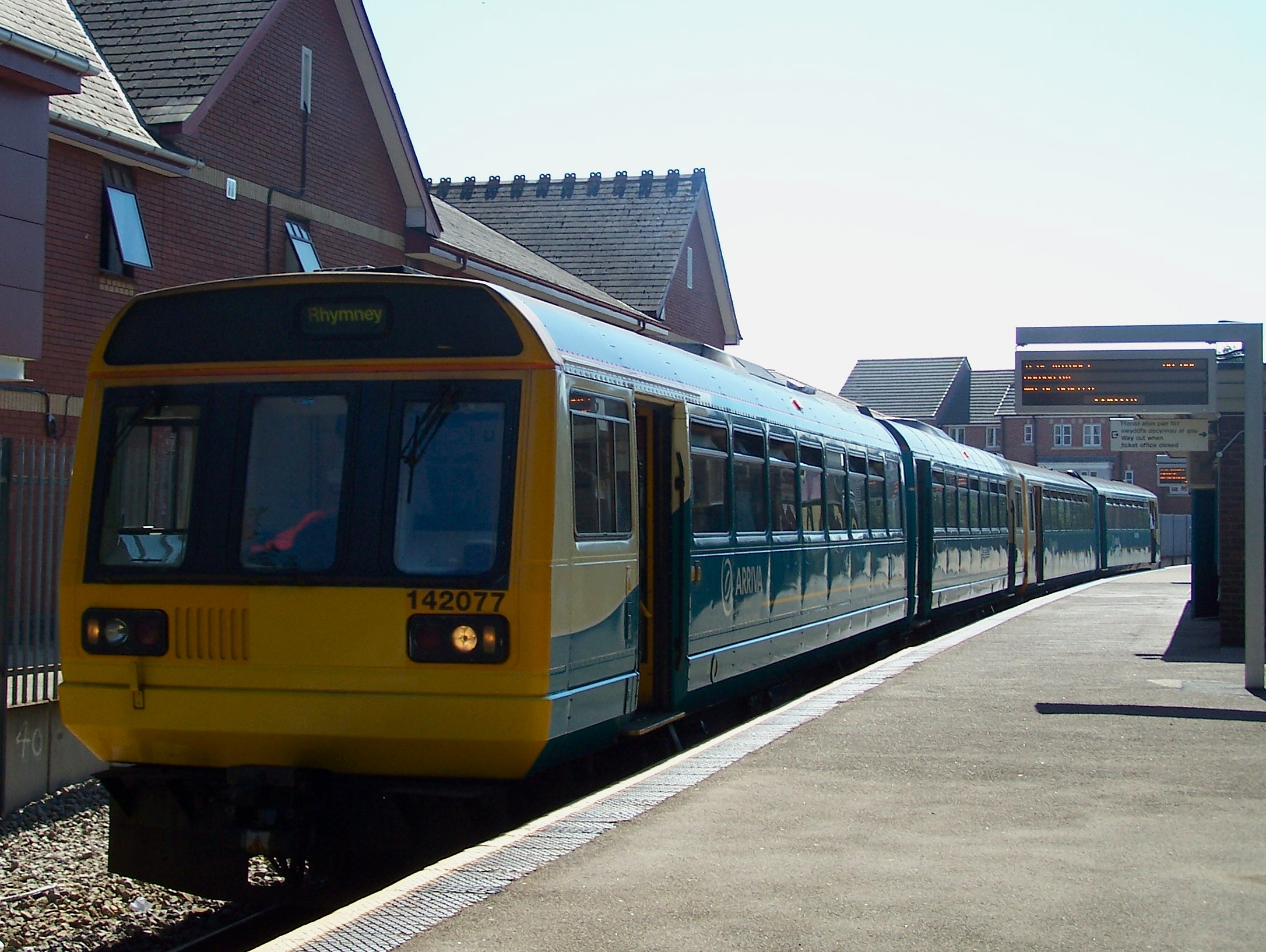 ARRIVA Trains Wales Class 142 No. 142077 at Penarth